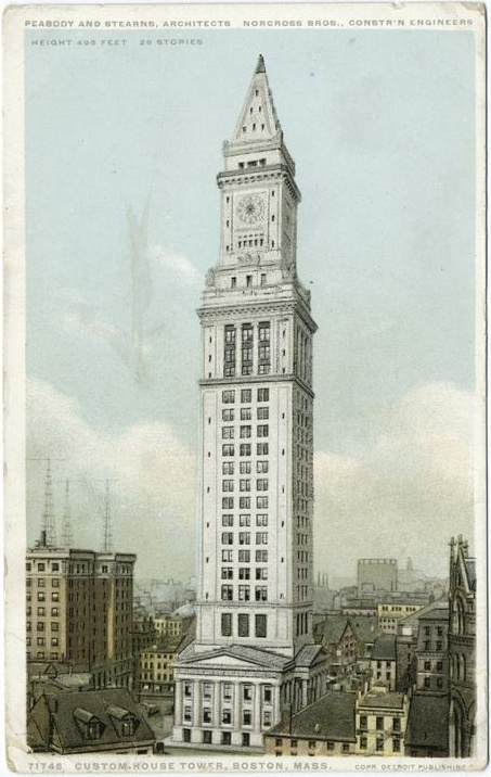 Image Title: Custom House Tower, Boston, Mass. Medium: Offset photomechanical prints. Source: Detroit Publishing Company postcards.